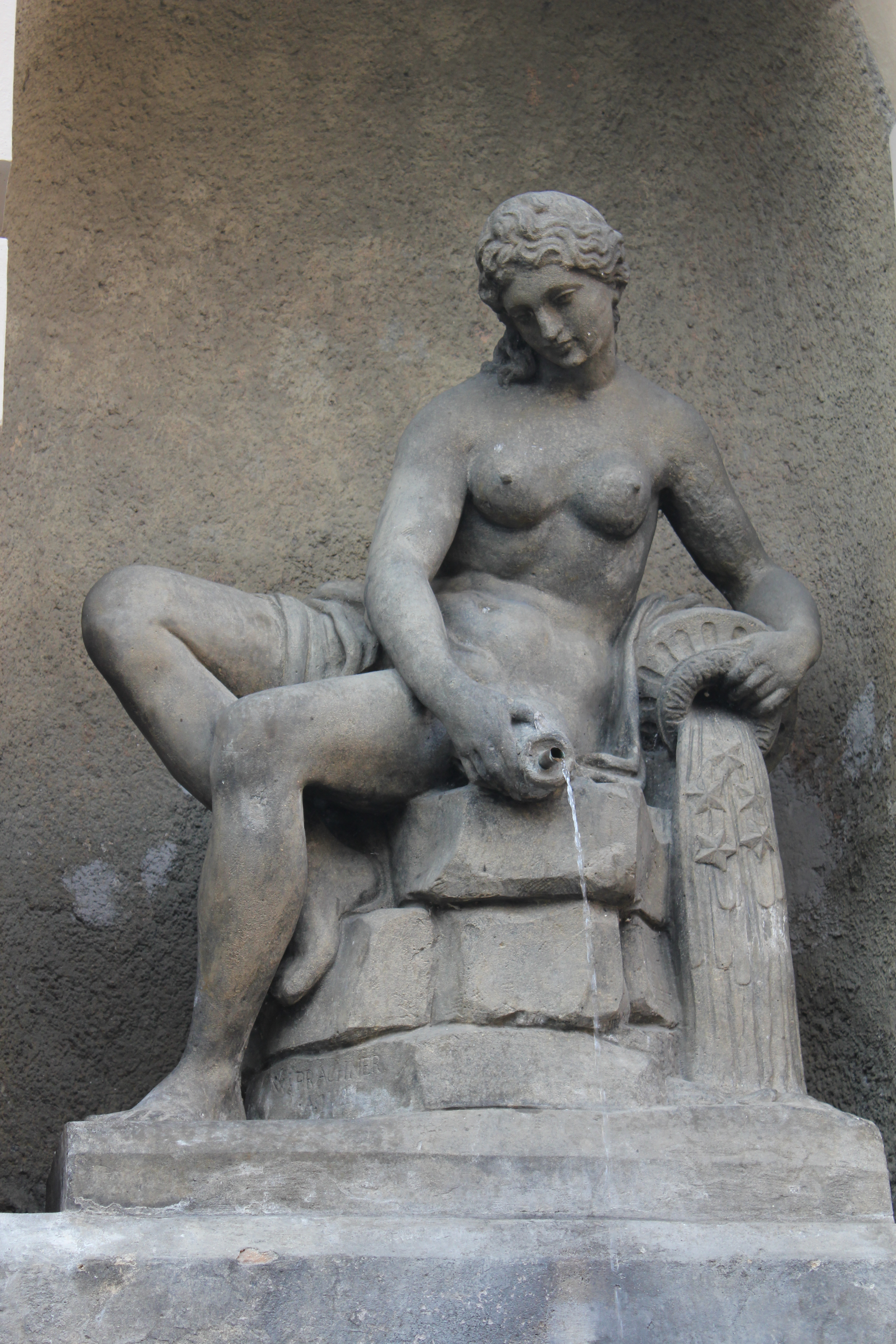 Statue of river Vltava at Marianske Namesti